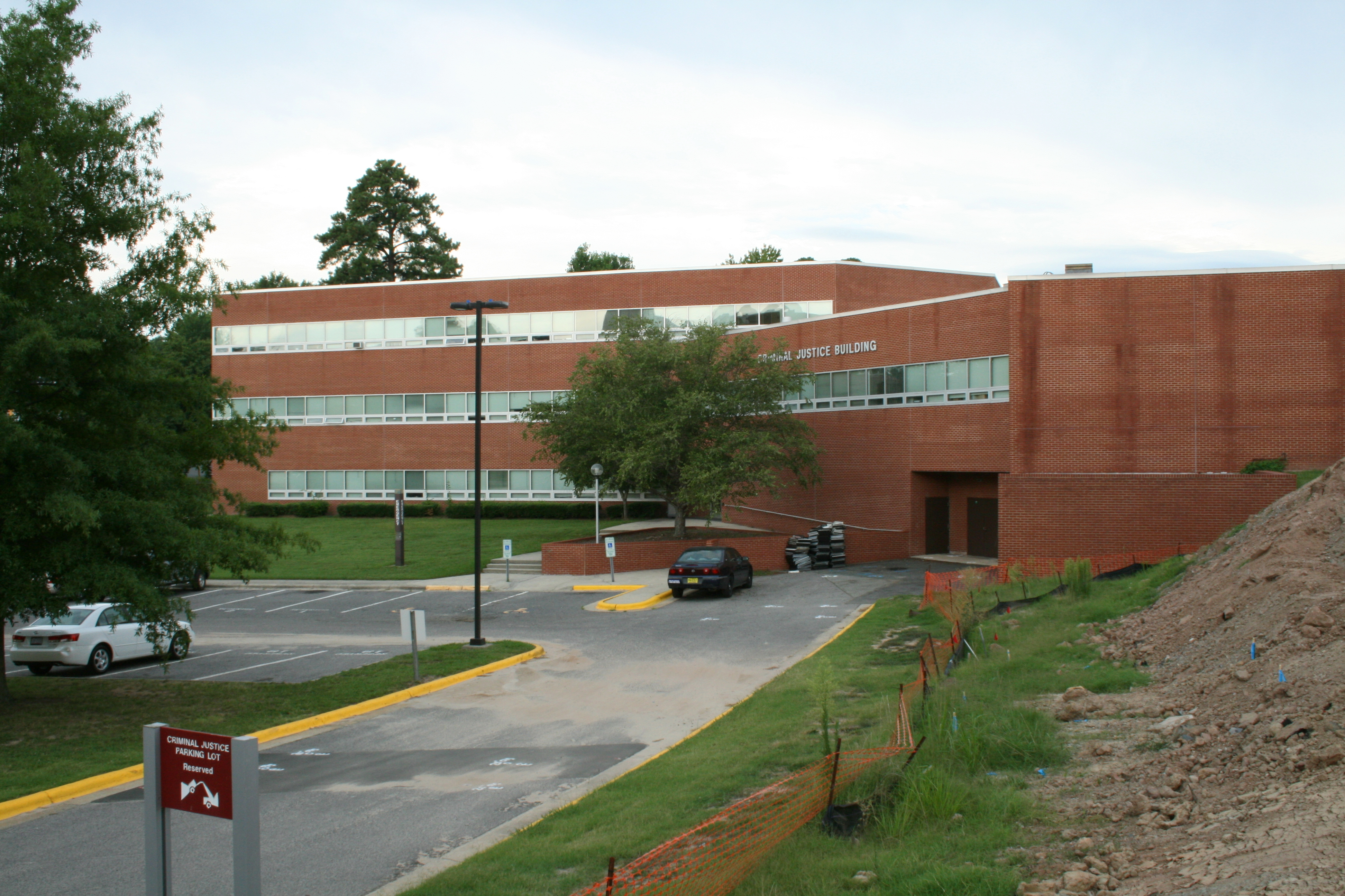 The Criminal Justice Building at North Carolina Central University in Durham, North Carolina.